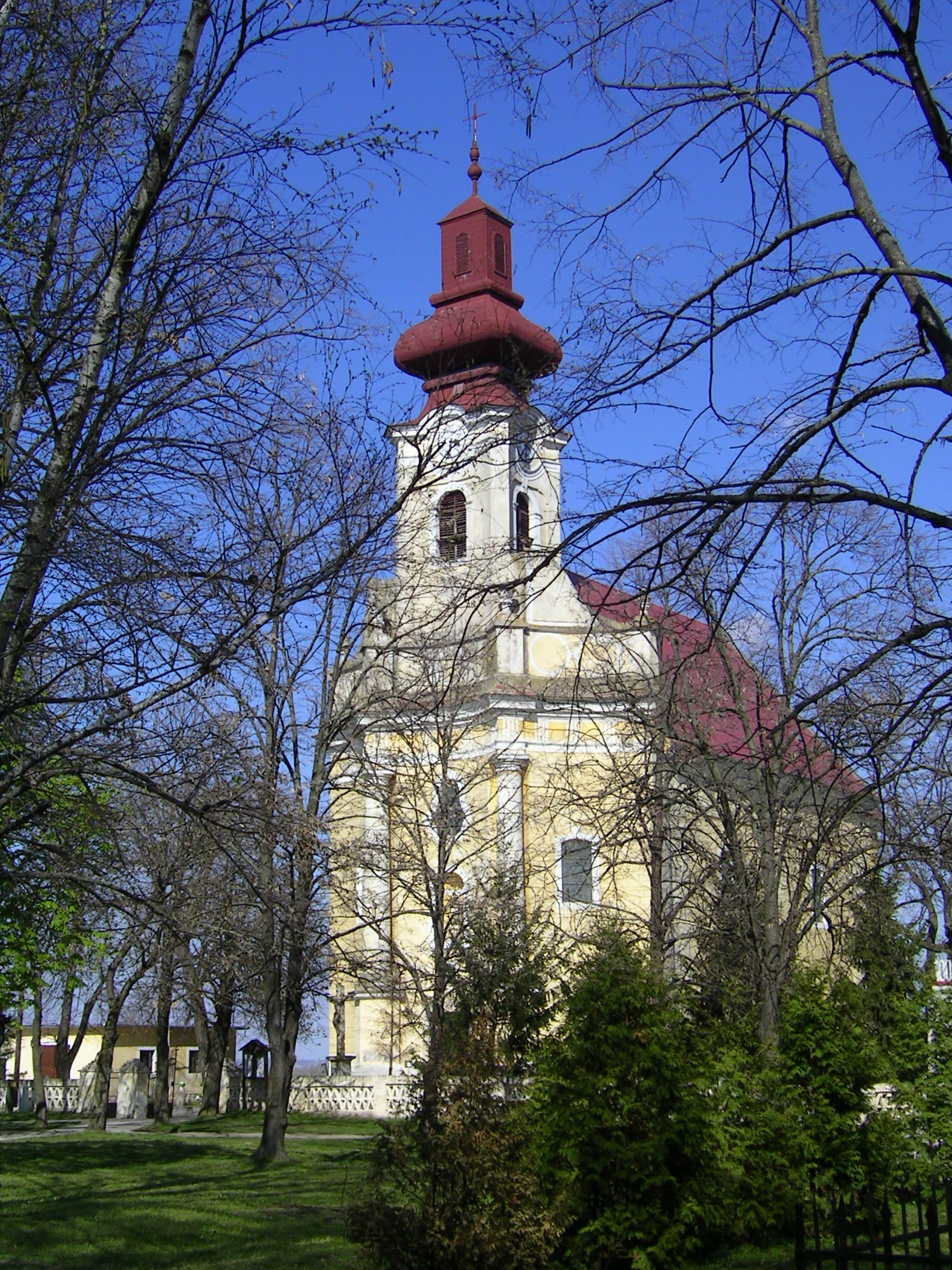 Roman catholic church in Nagynyárád, Hungary